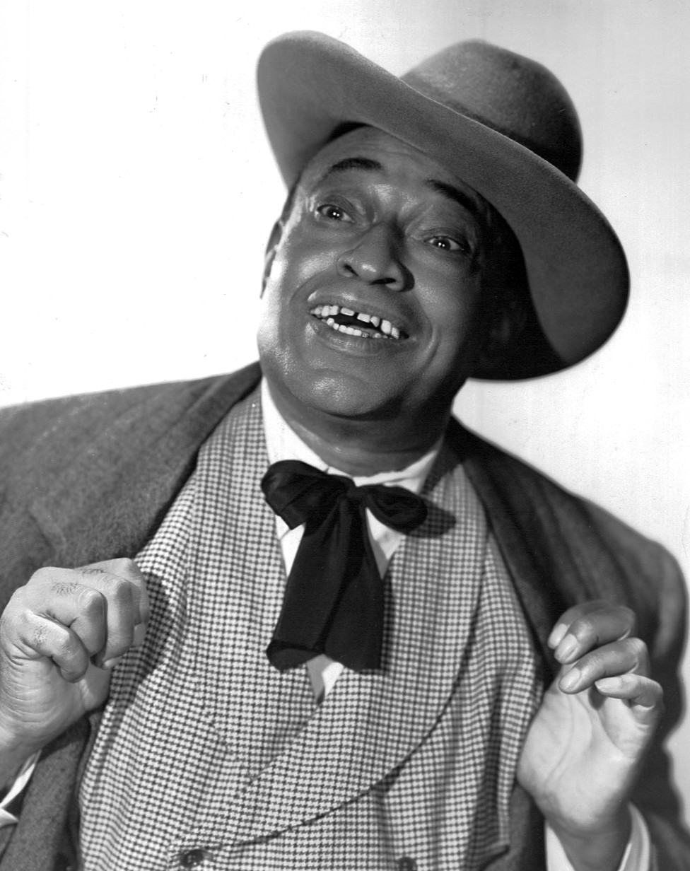 Photo of Tim Moore as George "Kingfish" Stevens from the television version of "Amos 'n' Andy".